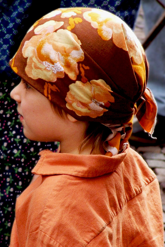 A little girl wears a bandanna. バンダナをした女の子。